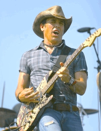 Sean Patrick McGraw - Live in Concert (by Scott Dudelson)